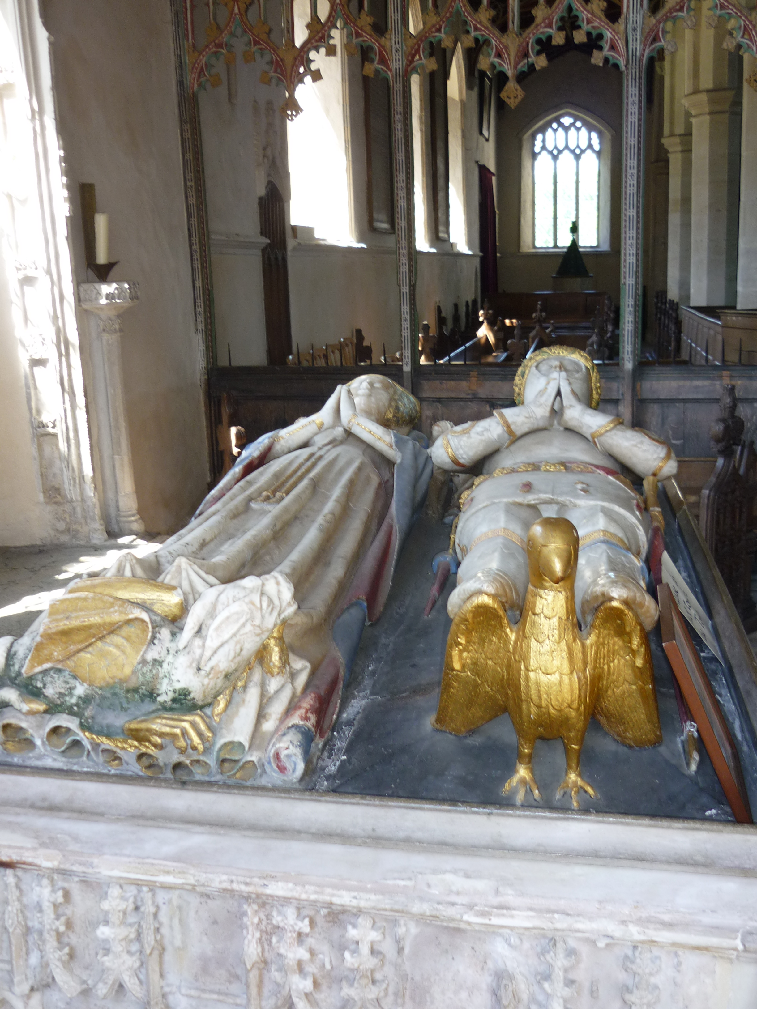 Dennington (Suffolk), Church of St Mary, Lord Bardolf's tomb